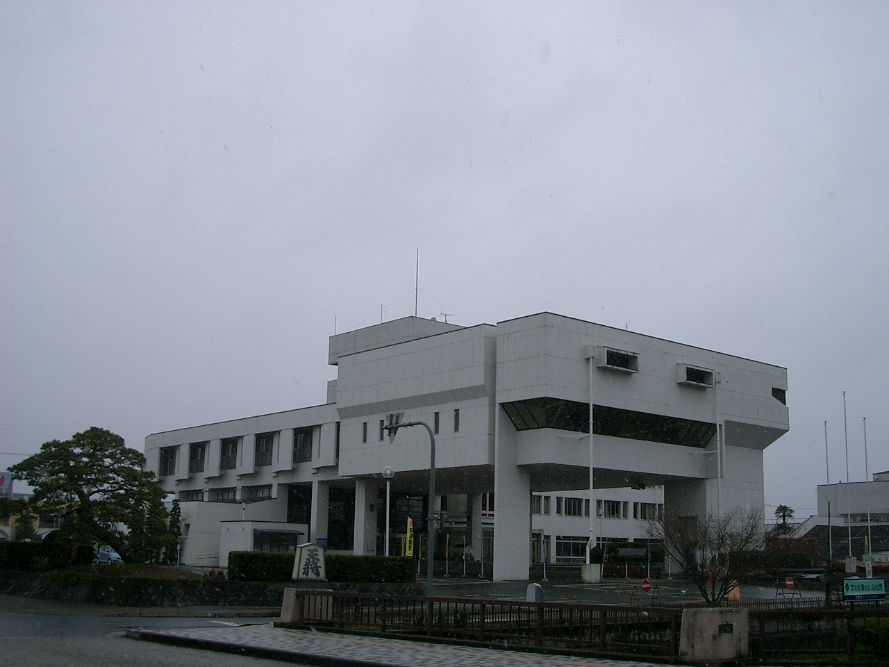 This photo presents Tendo City Office on winter.